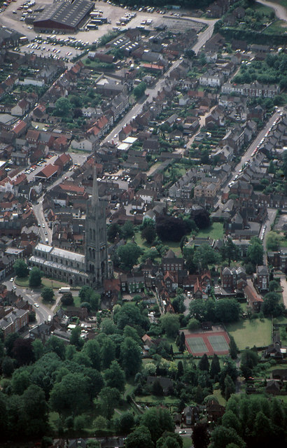 Louth from the Air. I can't remember the exact date of this photo. Some friends and I bought a flight over Lincolnshire in a charity auction.